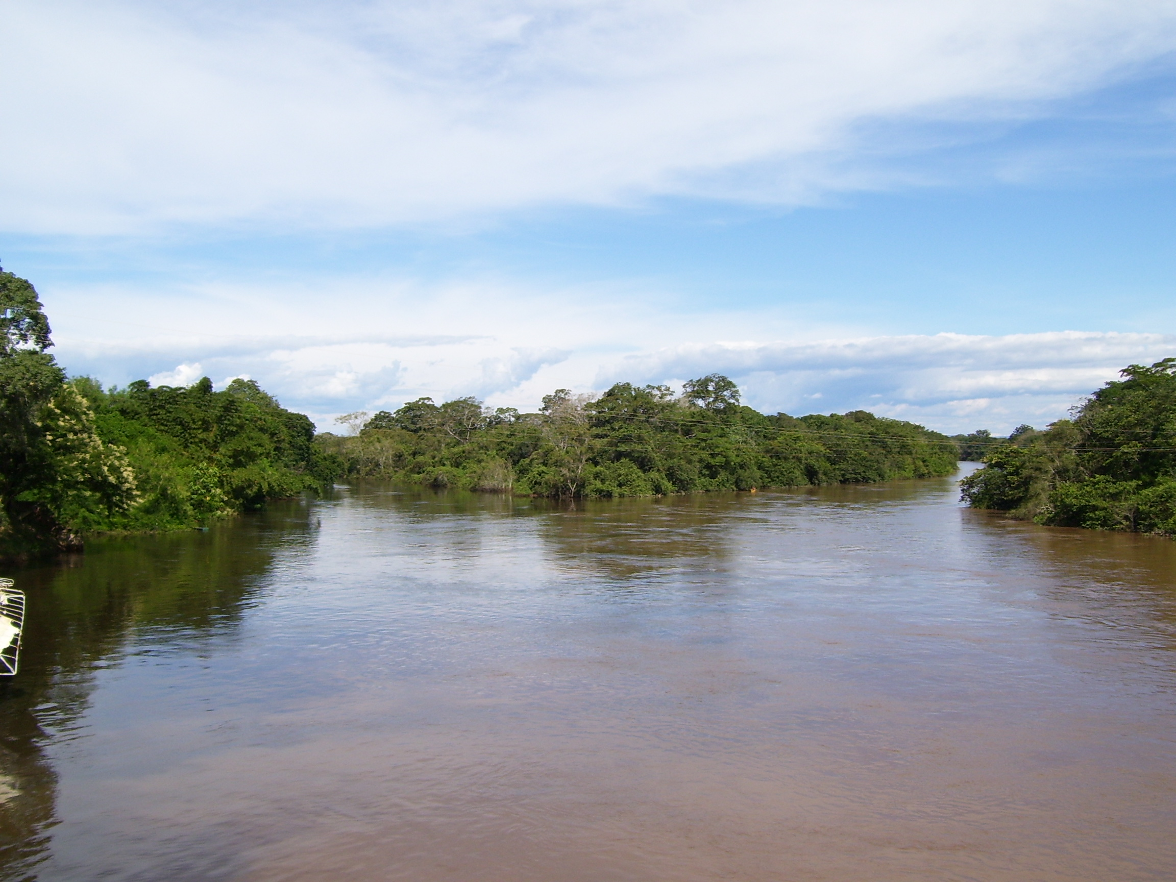 Confluence of the rivers Bugres (at left) and Paraguai River (at right), in the city of Barra do Bugres.